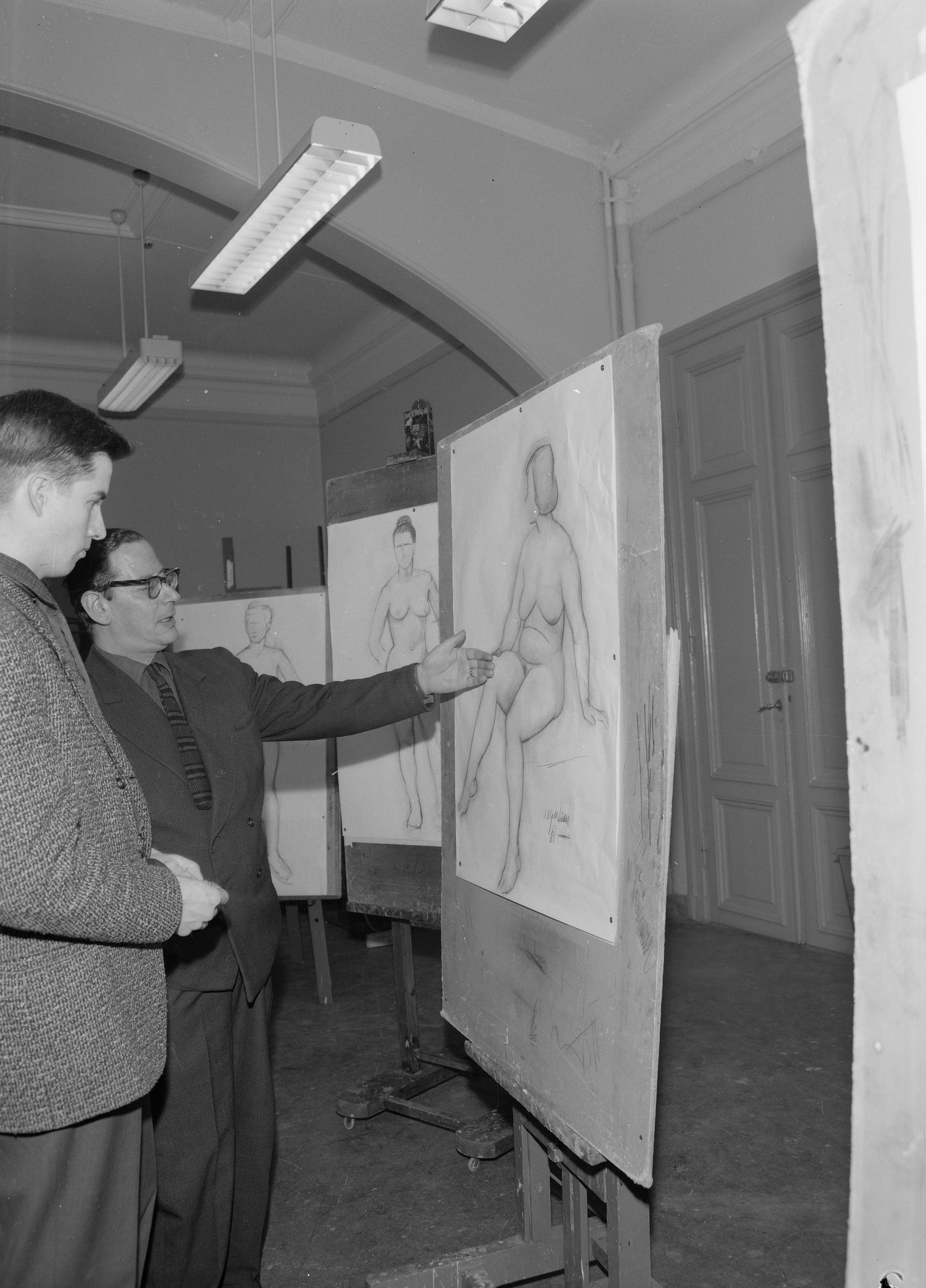 Photograph of the Finnish art student Göran Augustson (1936–2012) receiving instructions from teacher Sam Vanni (1908–1992) at Finnish Art Academy School Ateneum in Helsinki.